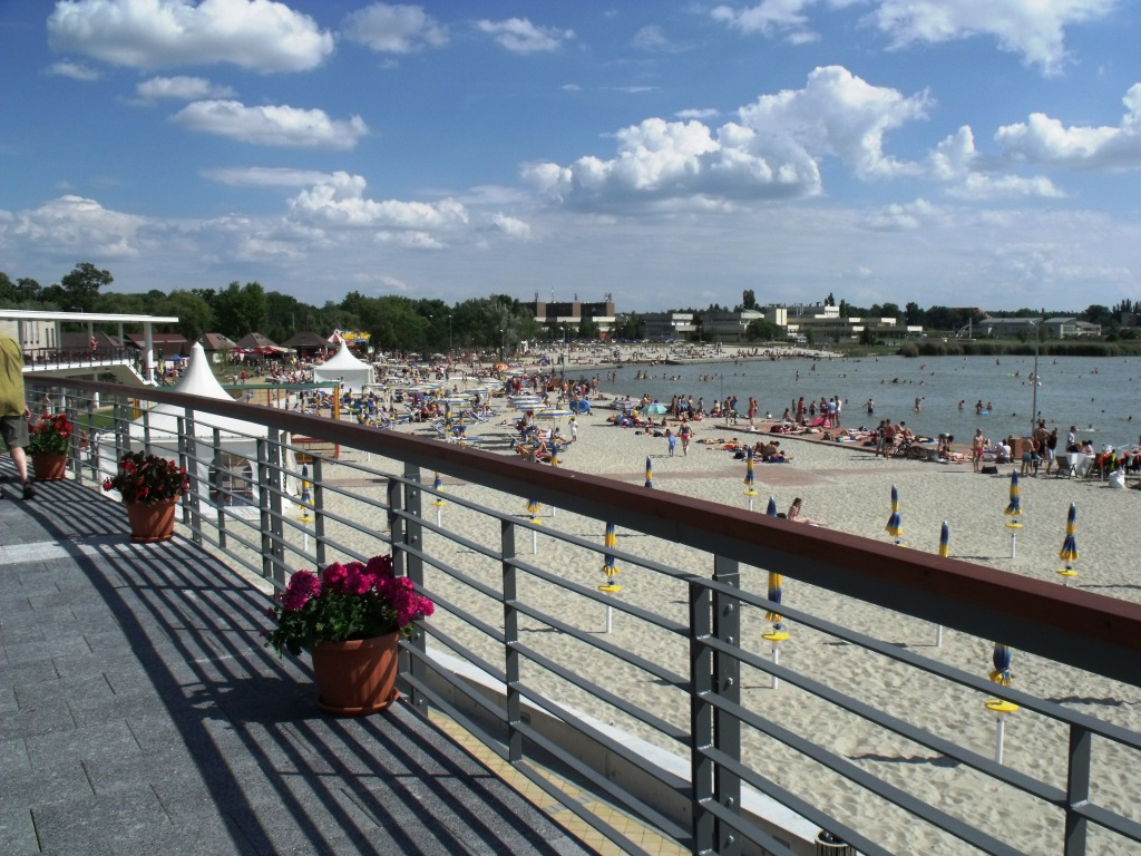 Velence, 2481 Hungary